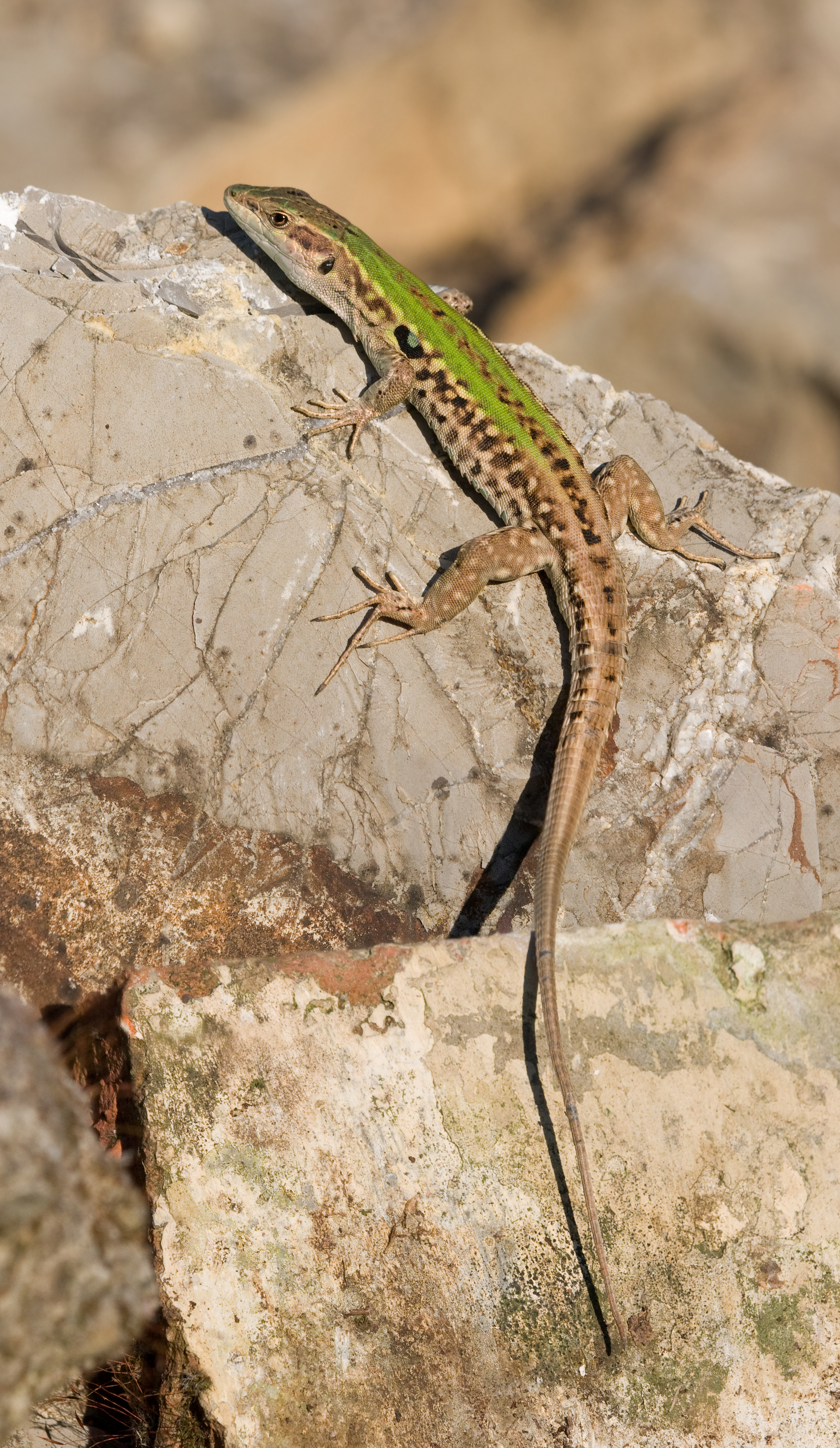 The Italian Wall Lizard or Ruin Lizard (Podarcis sicula) is a species of lizard in the Lacertidae family. P. sicula is found in Bosnia and Herzegovina, Croatia, France, Italy, Serbia and Montenegro, Slovenia, Spain, Switzerland, Turkey, and the United States. P. sicula belongs to the Squamata family of lizards and it is the most abundant lizard species in southern Italy.